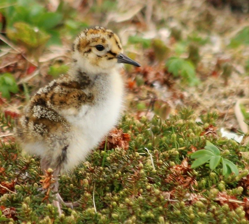 Rock sandpiper chick on St. George by Kevin Pietrzak/USFWS.